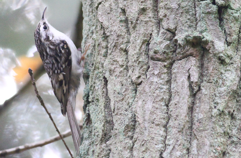 Certhia familiaris familiaris (Certhiidae) (Eurasian Treecreeper), Vlieland - Ruige Plak, the Netherlands